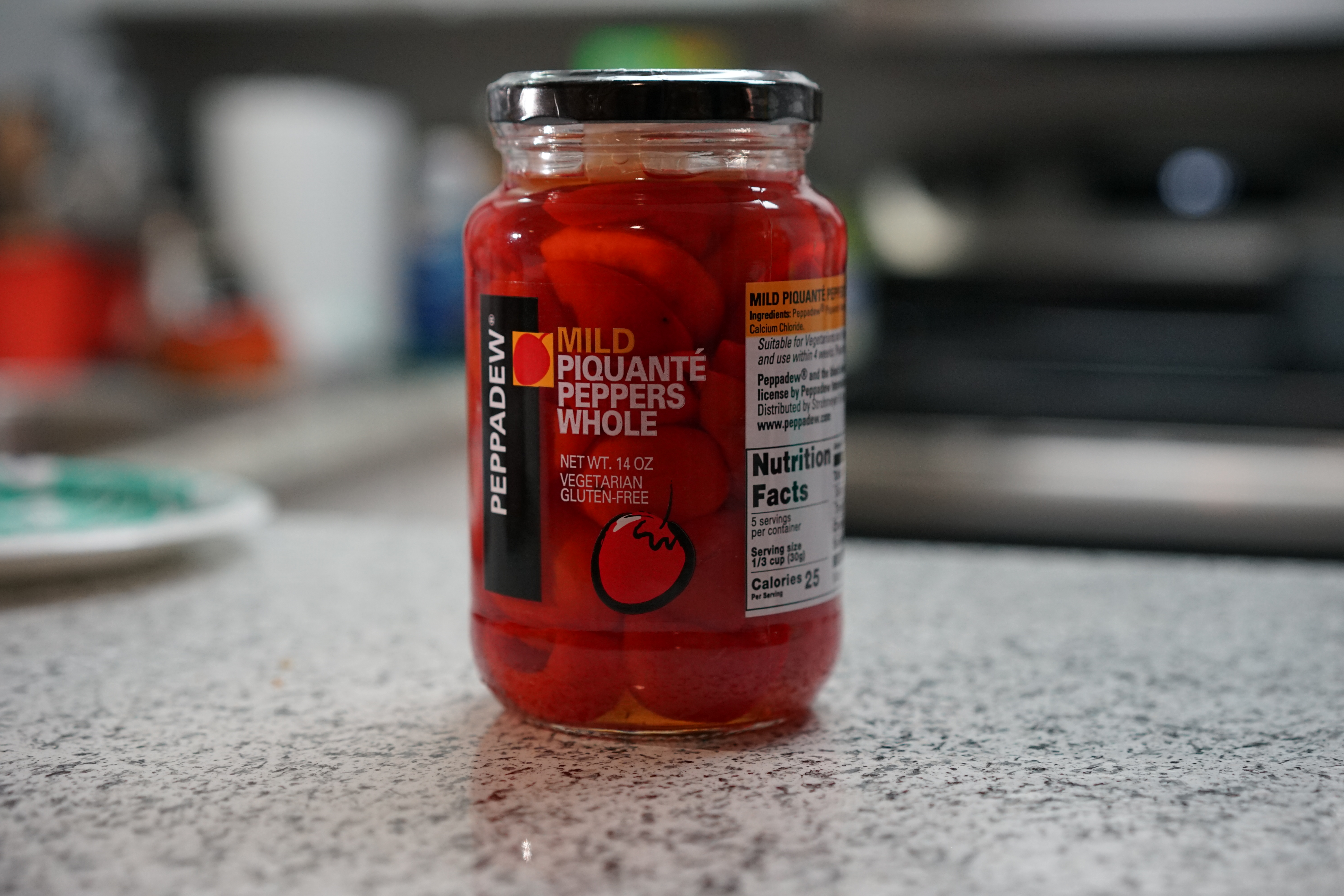 Peppadew pickled pepper jar ordered via Amazon